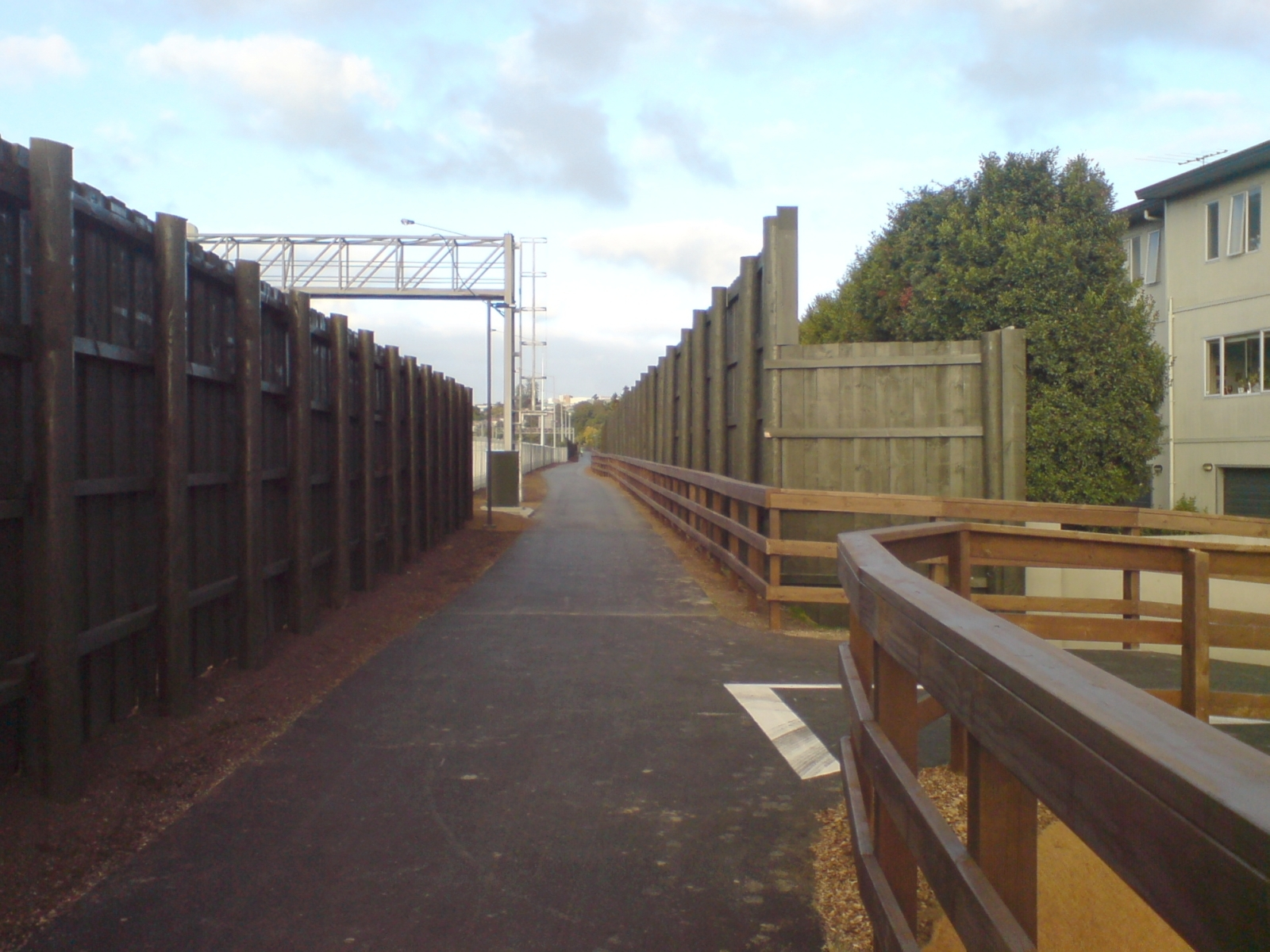 The new section of the Northwestern Cycleway in Auckland City, New Zealand. Finished, but yet without landscaping, early 2010.